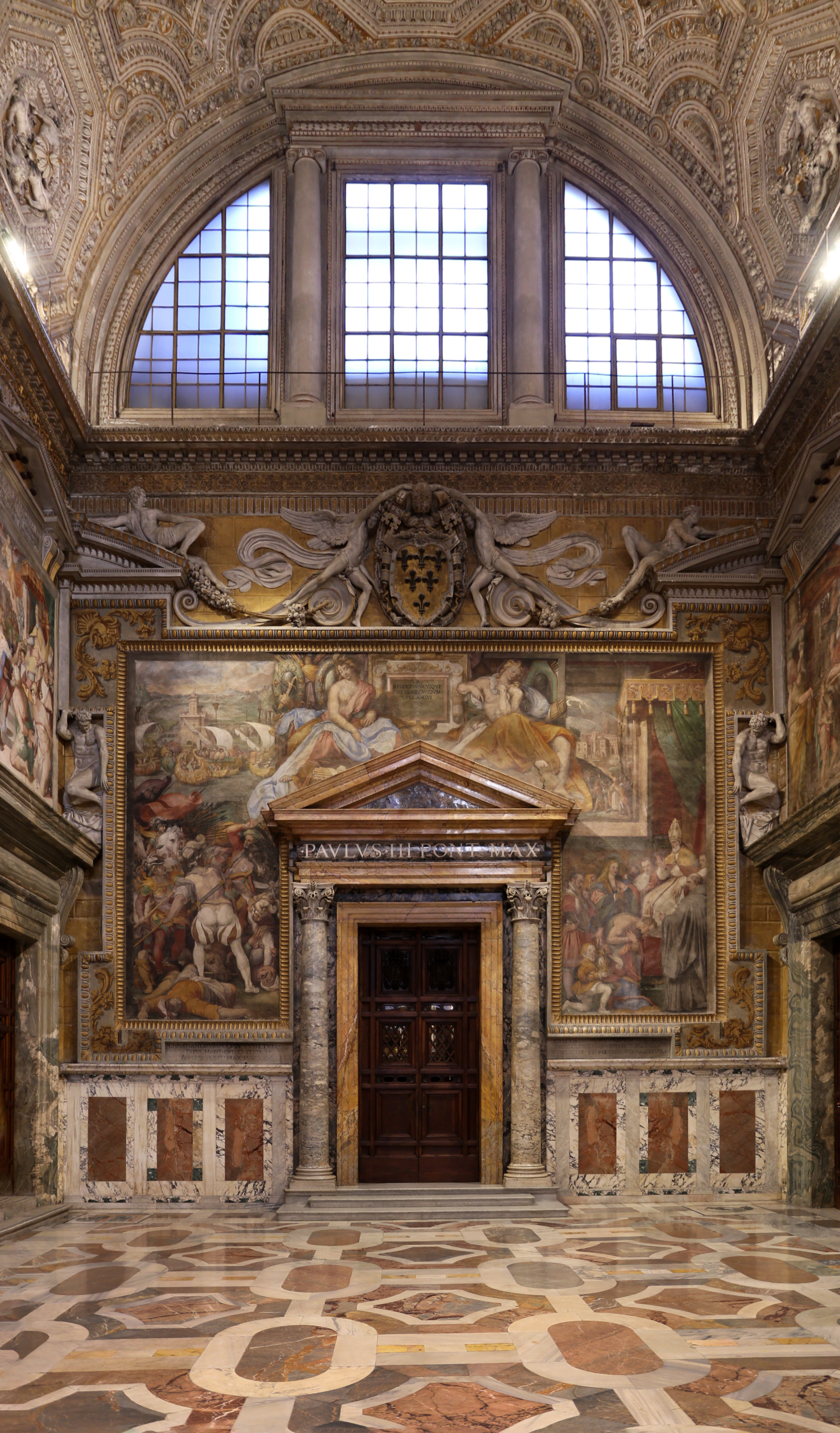 Sala Regia, Vatican